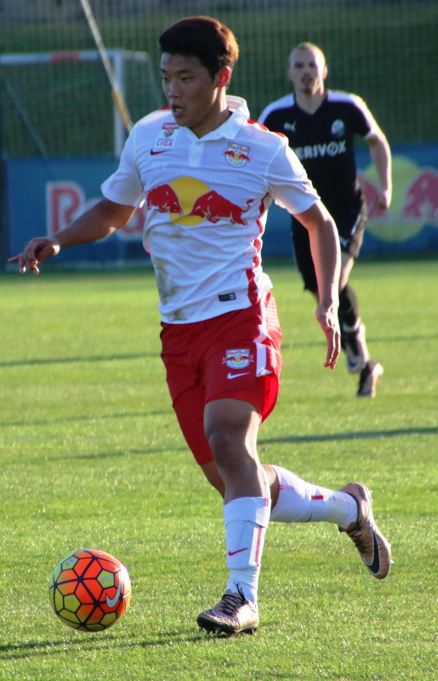 friendly match